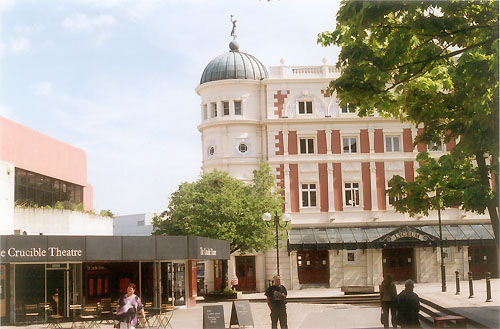 The Lyceum Theatre (centre, Crucible Theatre, left), Sheffield City Centre, South Yorkshire, England